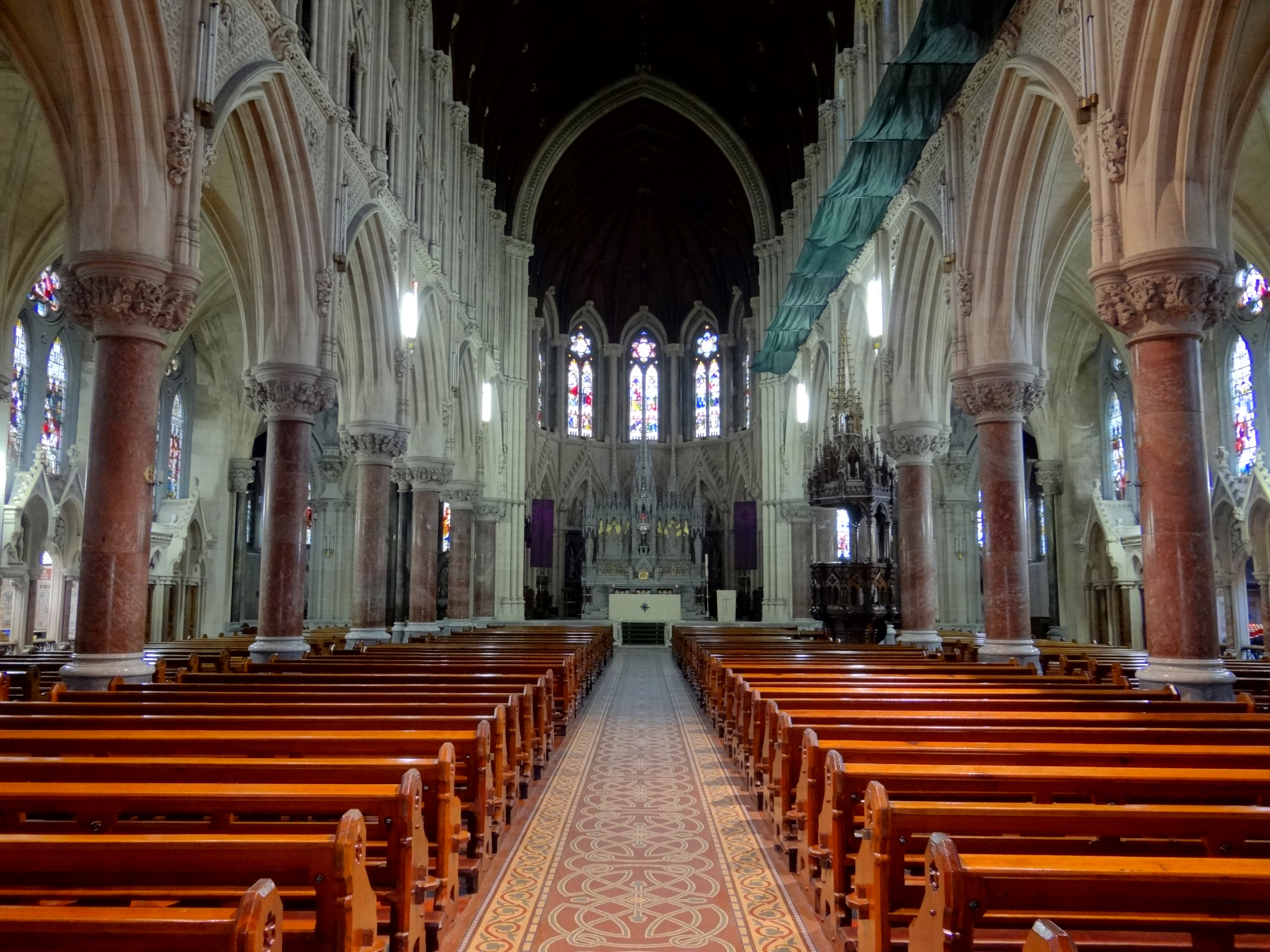 The internal view from the back of the cathedral towards the altar in the front.